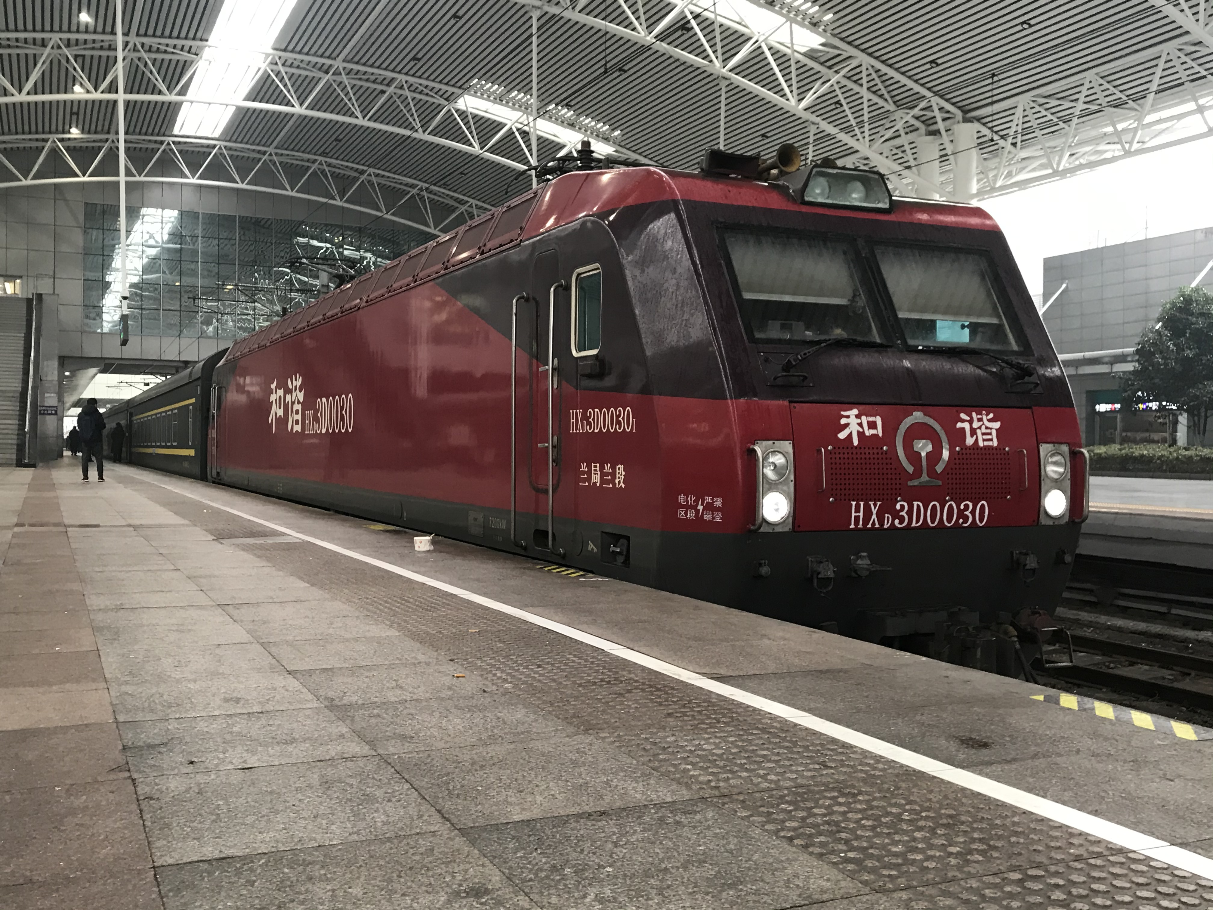 The entire train of Z376 isn't that long, plus it returns to Xining immediately without going to the depot which leaves some space on the platform for spotting